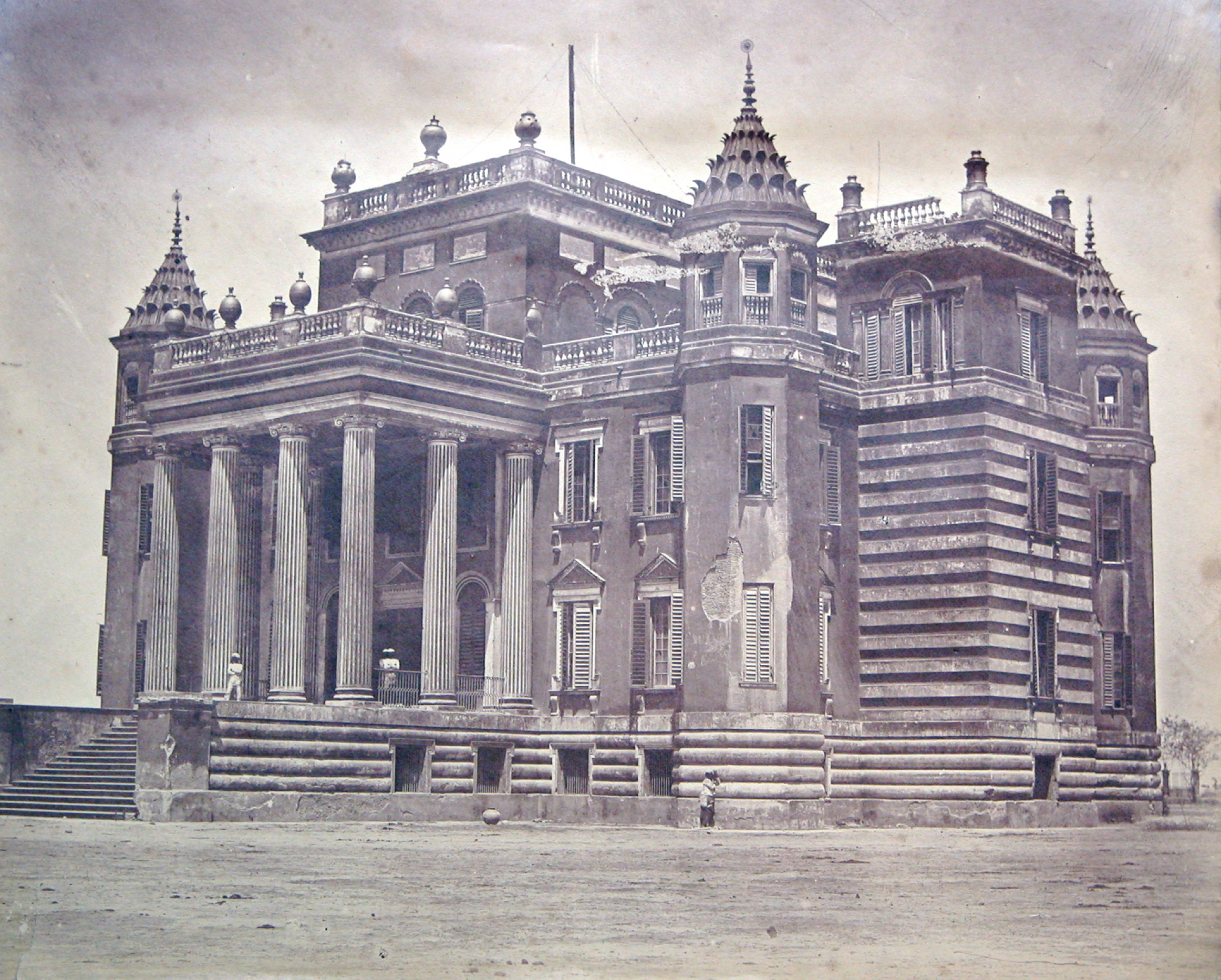 First attack of Sir Colin Campbell in Nov 1857. The Dilkoosha, Lucknow 1858.